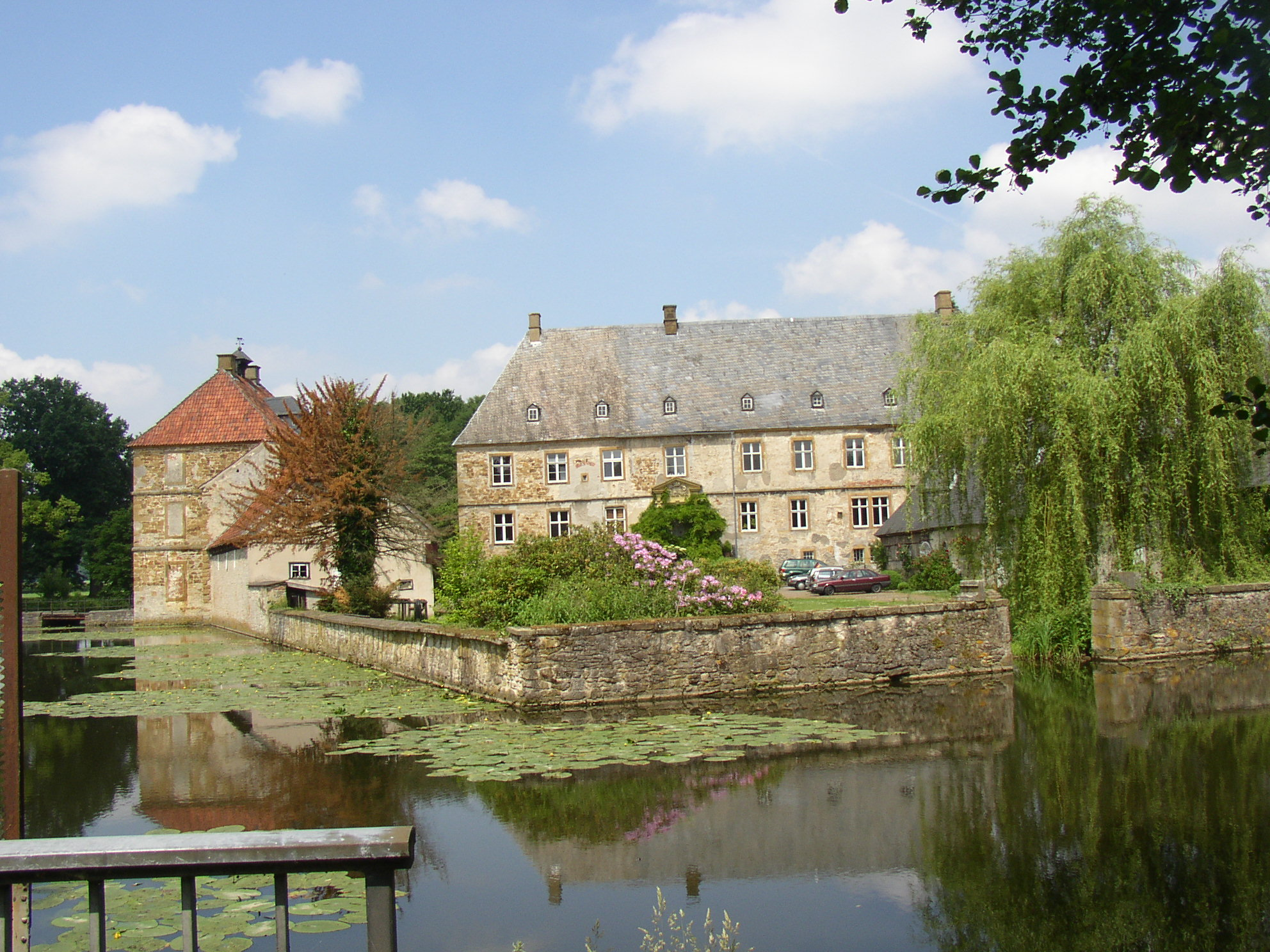 Front side moated castle Tatenhausen in Halle (Westfalen)